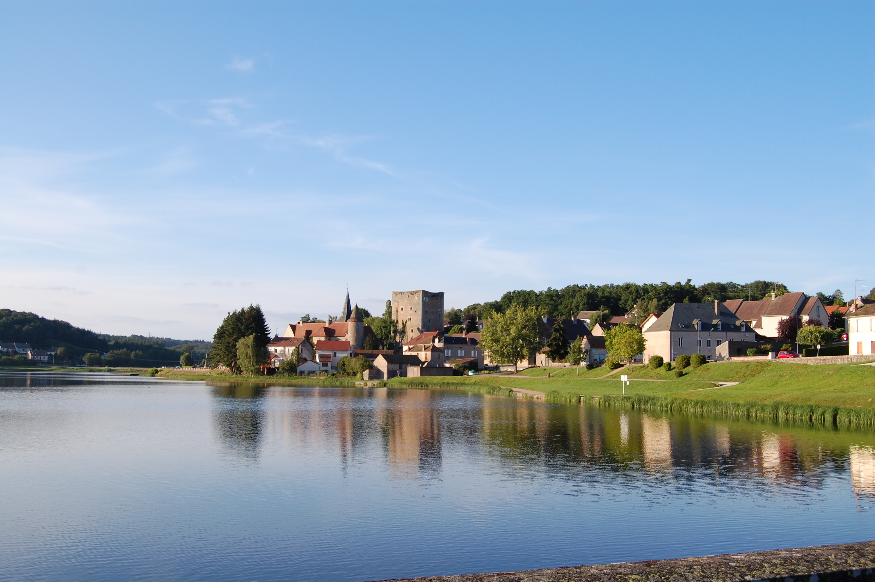 Saint-Sernin-du-bois village view from opposite the pound